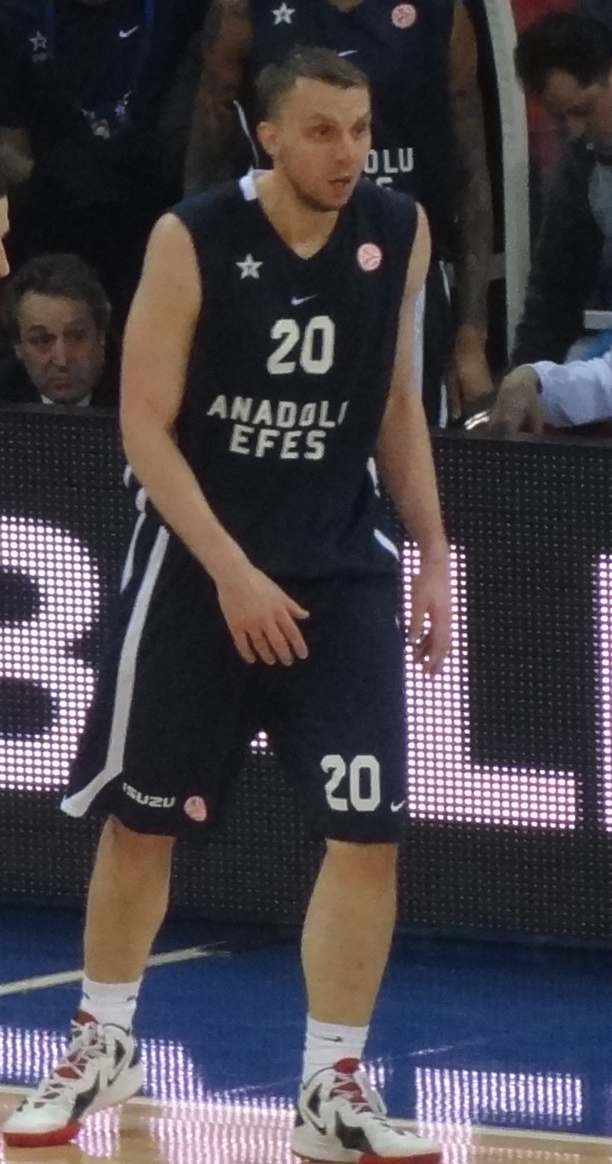 Dusko playing vs Galatasaray